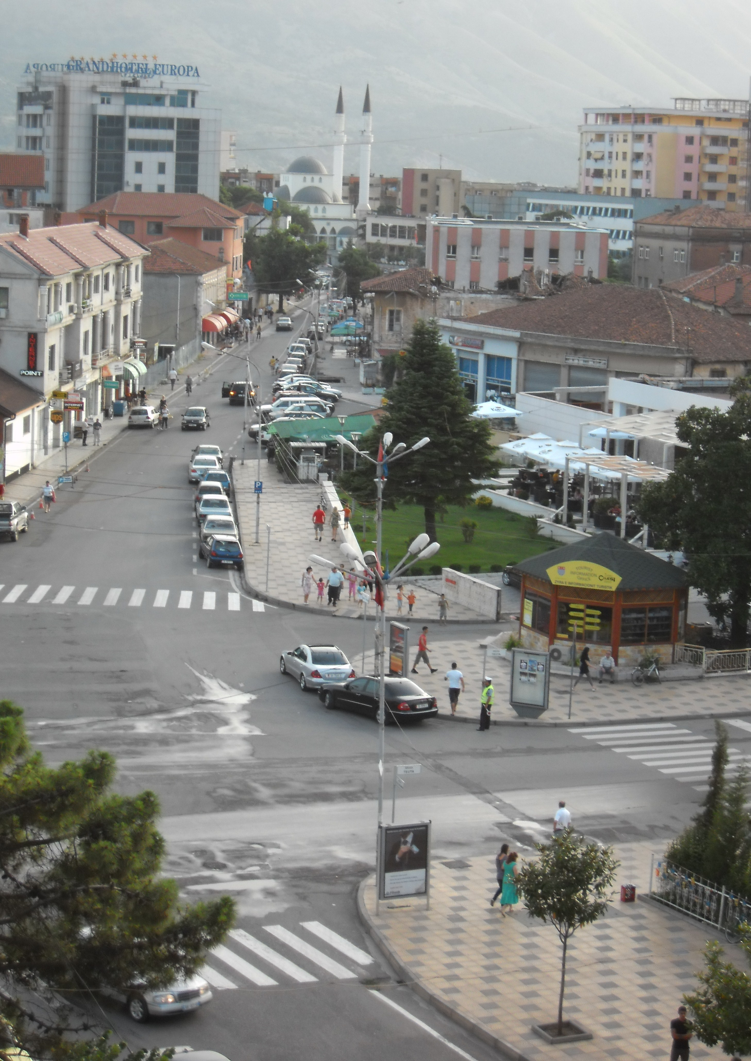 Intersection of Rruga Vilson at Rruga Teutain, Shkodër